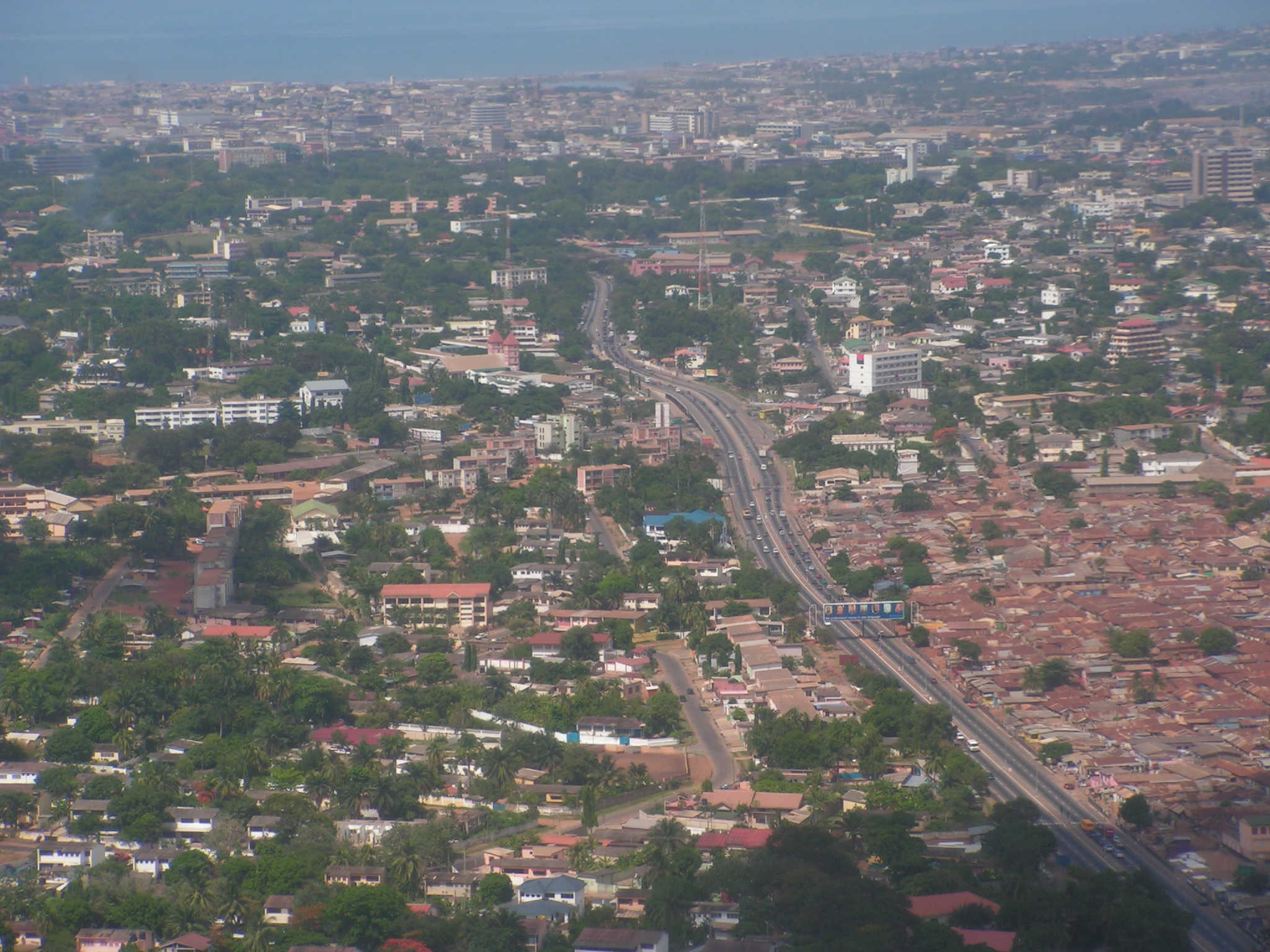 Taken with a Konica Minolta DiMAGE A2 digital camera. Nima highway, in Accra, Ghana.